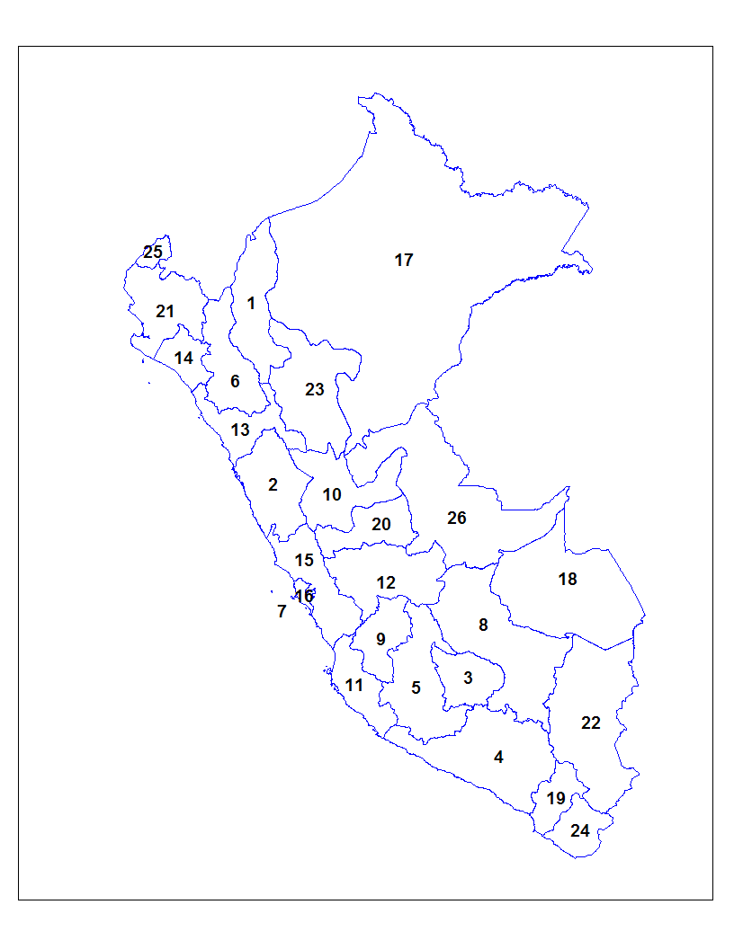 This map has been uploaded by Electionworld from to enable the Wikimedia Atlas of the World . Original uploader to was Rarelibra, known as Rarelibra at . Electionworld is not the creator of this map. Licensing information is below. Map of the regions of Peru. Created by Rarelibra 16:06, 30 August 2006 (UTC) for public domain use. Created using MapInfo Professional v8.5 and various mapping resources.